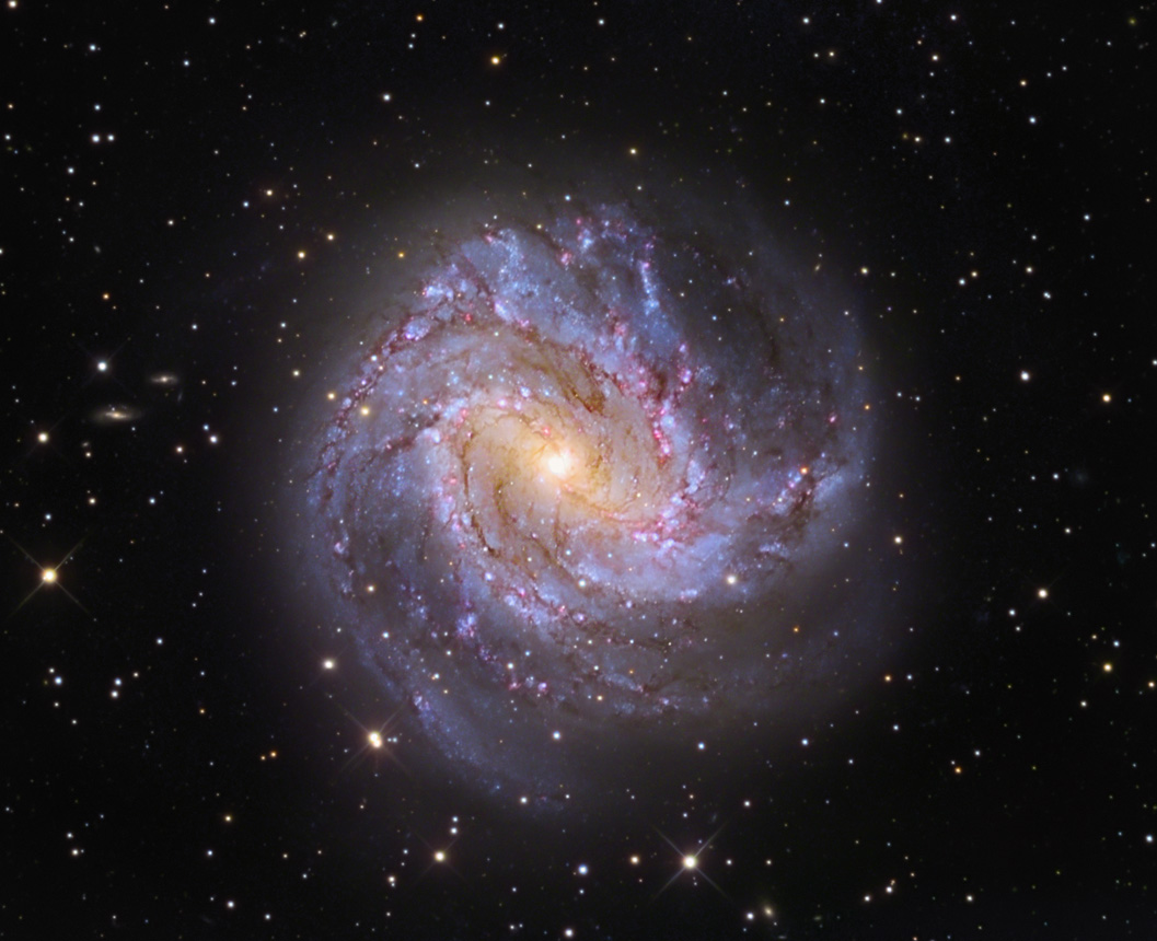 Deep exposures of Galaxies using the 0.8m Schulman Telescope at the Mount Lemmon SkyCenter Credit Line & Copyright Adam Block/Mount Lemmon SkyCenter/University of Arizona